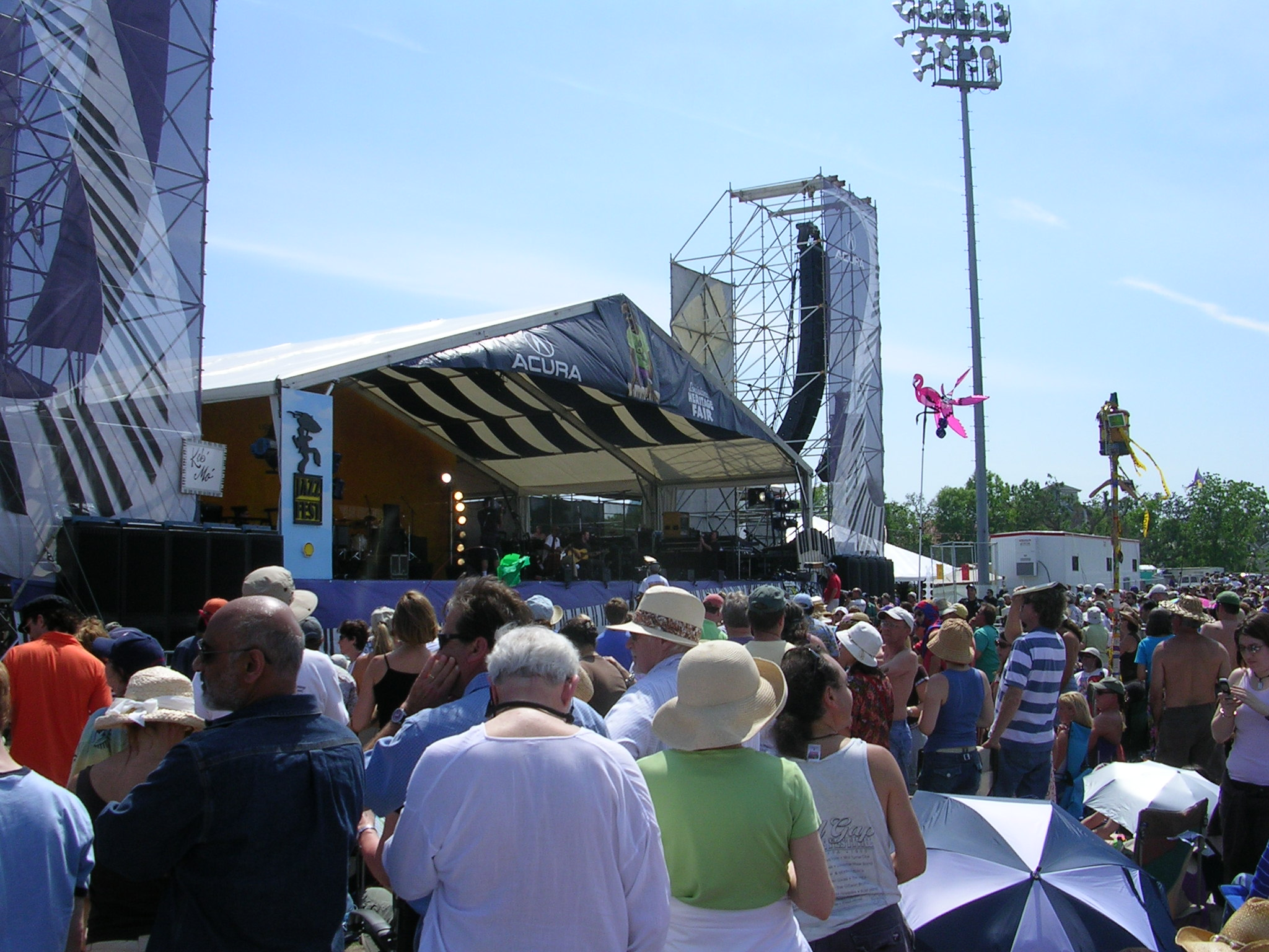 Acura, one of the main stage at the New Orleans Jazz & Heritage Festival